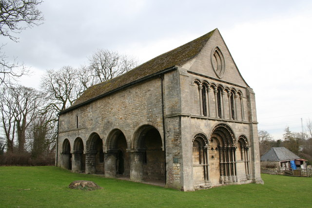 St.Leonard's Priory. In a town rich in historic buildings, St.leonard's Priory is by far the best Norman architecture. Reputedly founded in 1082, the remains seen here are the early 12th century west front and 5 bays of a 6 bay north arcade. The site was extensively excavated 1967-72 and the finds are displayed in the Stamford Museum